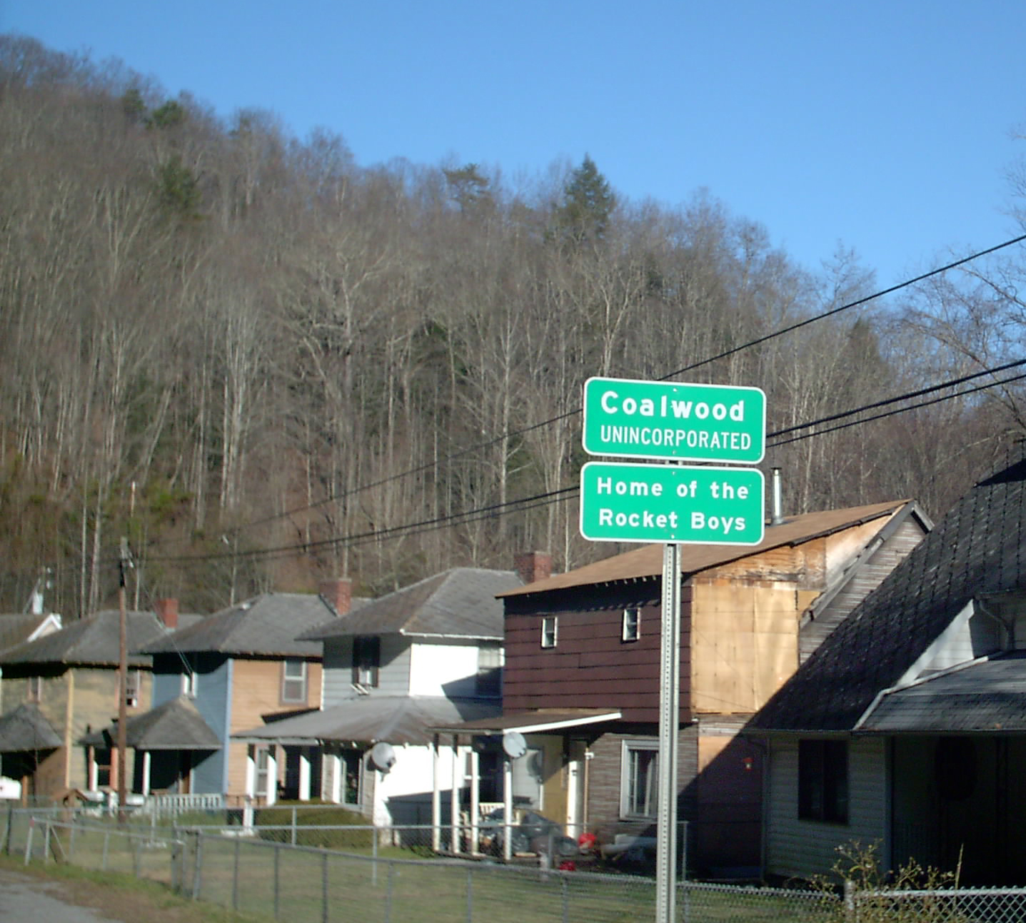 Coalwood circa November 2006.